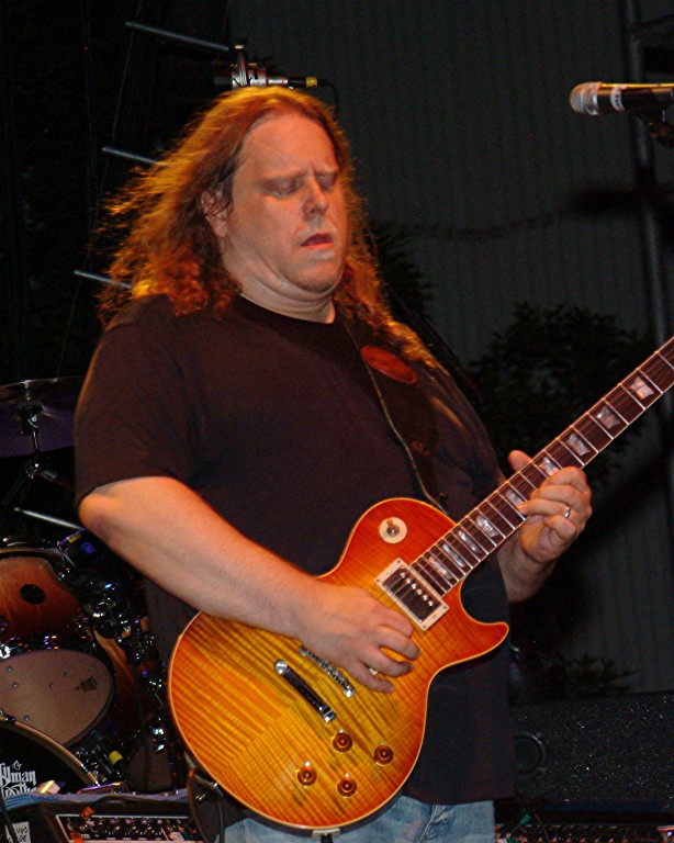 Warren Haynes with The Allman Brothers Band at City Stages 2006, Birmingham, AL